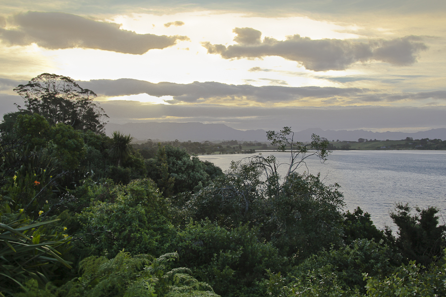 The sun setting at Omokoroa Peninsula